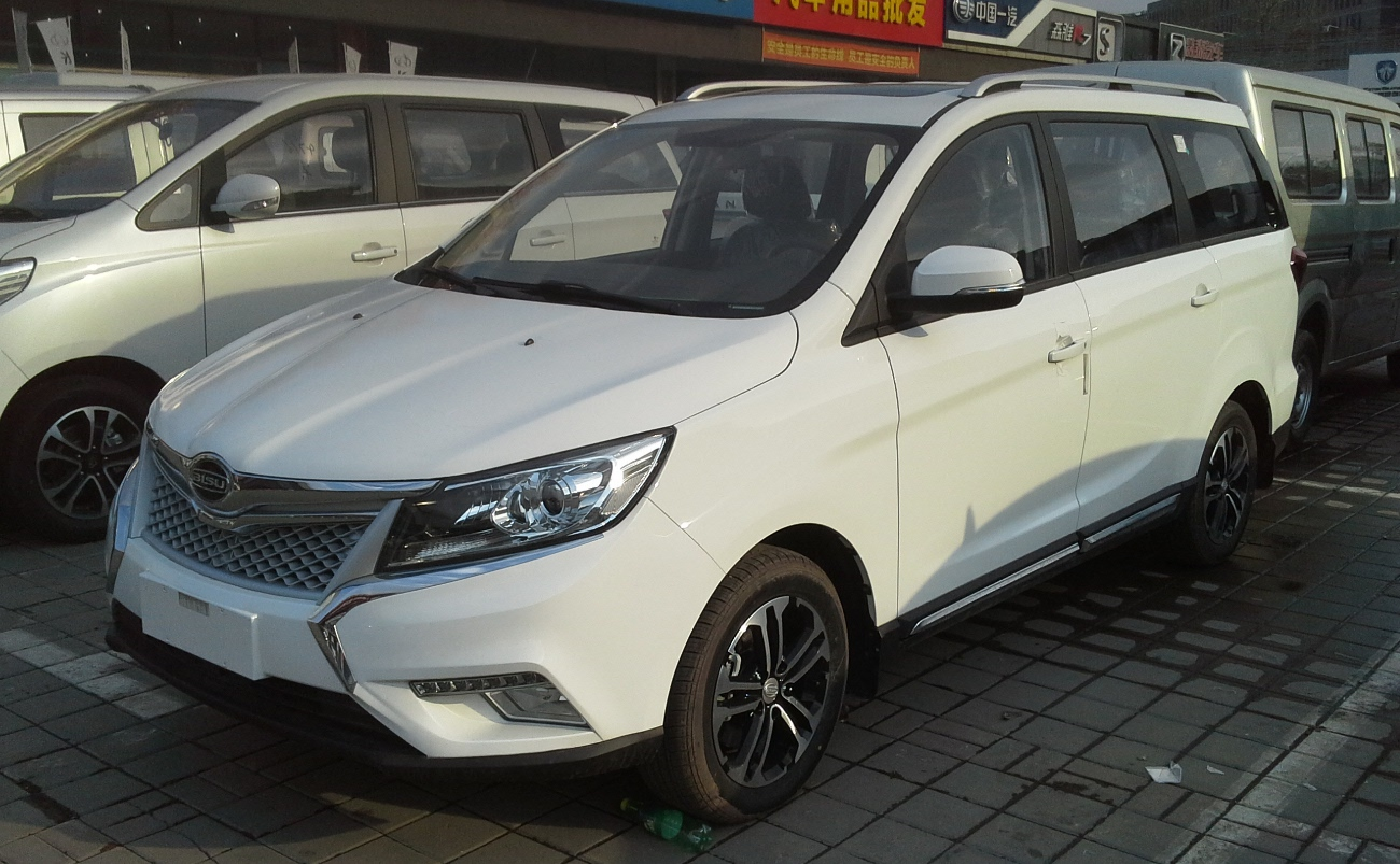 Bisu M3 photographed in Changchun, Jilin province, China.